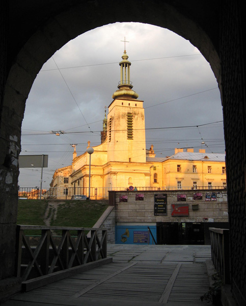 Poor Clares Church in Lviv, as seen from Hlyniany Gate